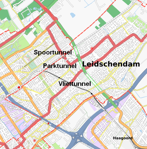 Sijtwendetunnel(s)